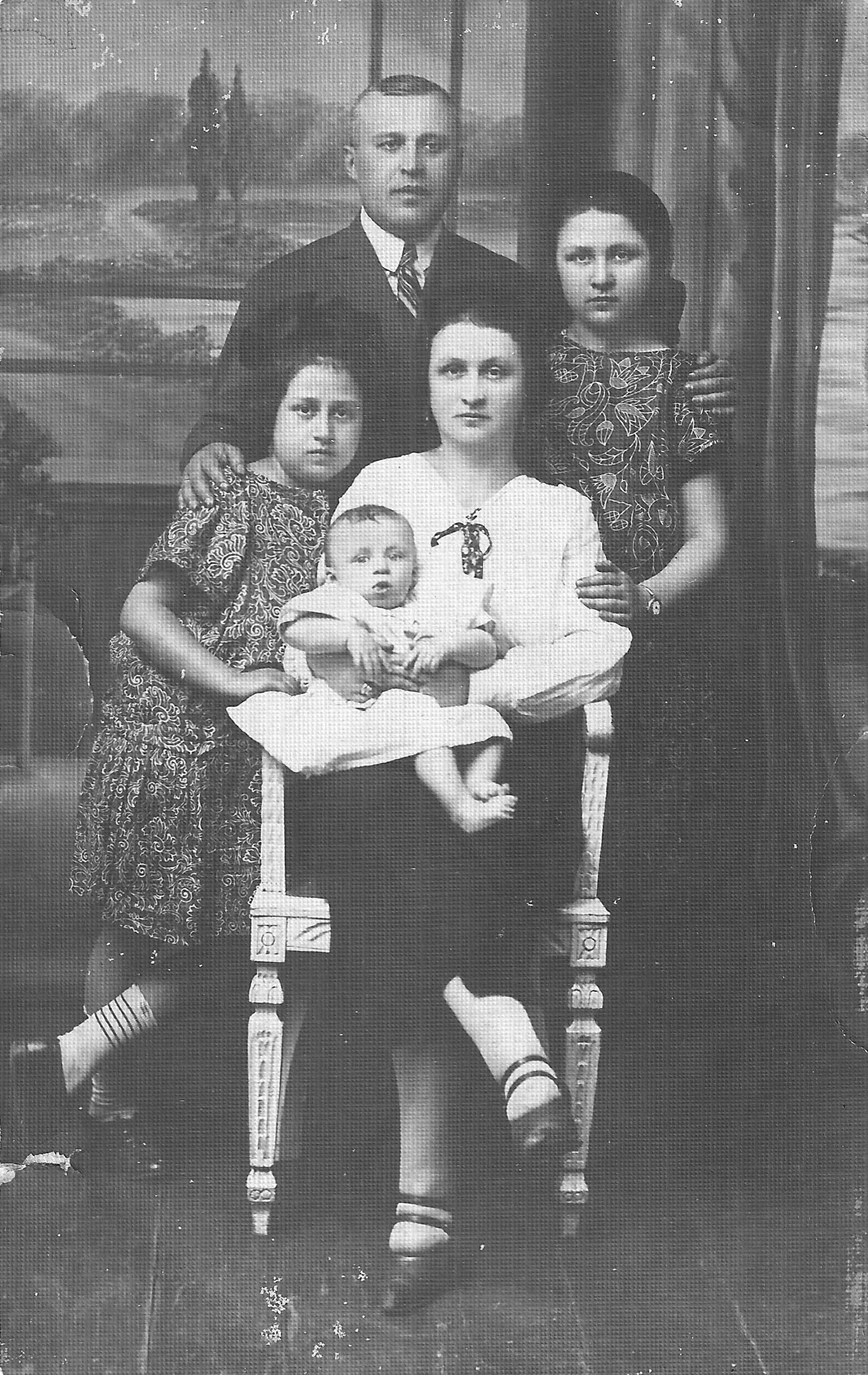 The Gitlin couple and their children, c. 1925: Eliyahu Gitlin (~1882–1932) standing next to his daughters: to his right is the first-born daughter, Anna (Anka) (Polakiewicz; b. 1911), and to his left Esther (Stula) (Hildesheim; b. 1912); sitting is his wife Ewa (b. 1888) and on her lap is the youngest son, Moshe (Mietek). All members of the family, except for its father, perished in the Holocaust (see pages of testimony on Yad Vashem website: Ewa, Anna, Esther).